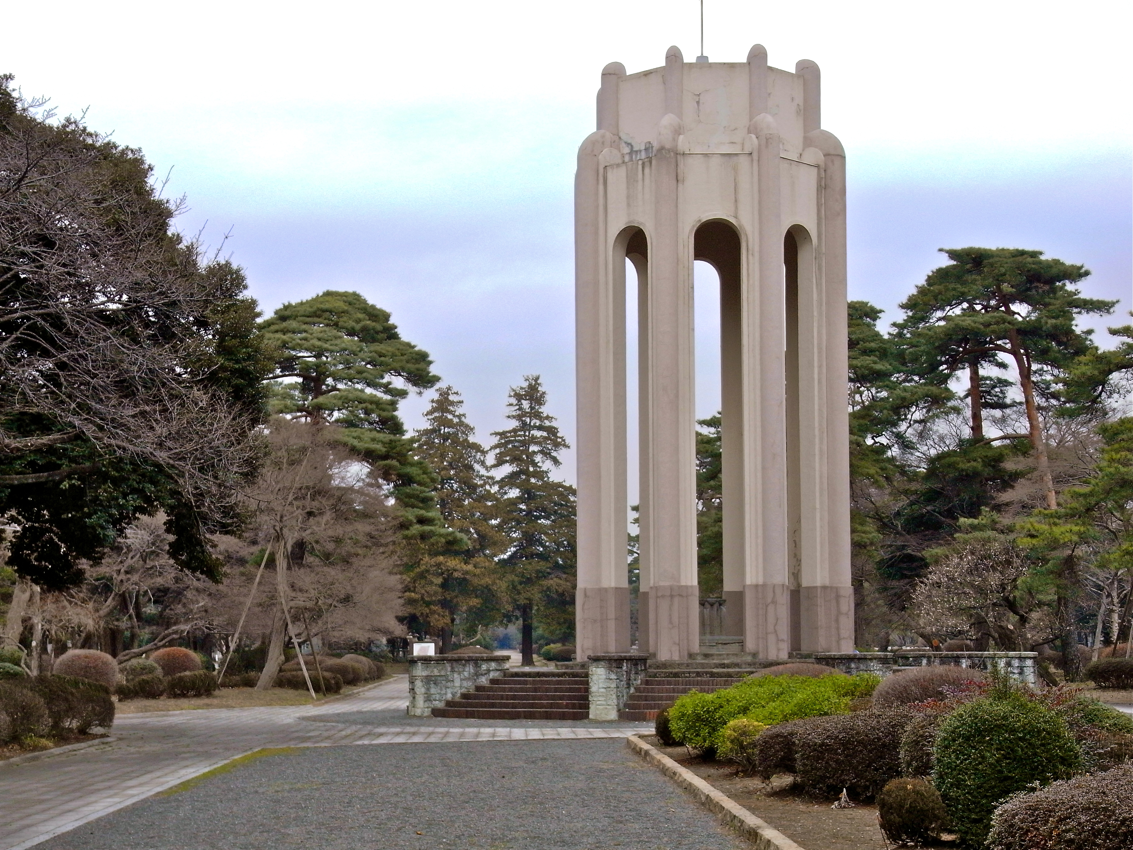 Fountain Tower, Tama Cemetery